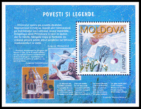 Stamp of Moldova 1997